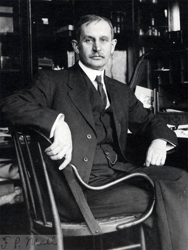 Franklin Paine Mall, JHU Sheridan Libraries collections.